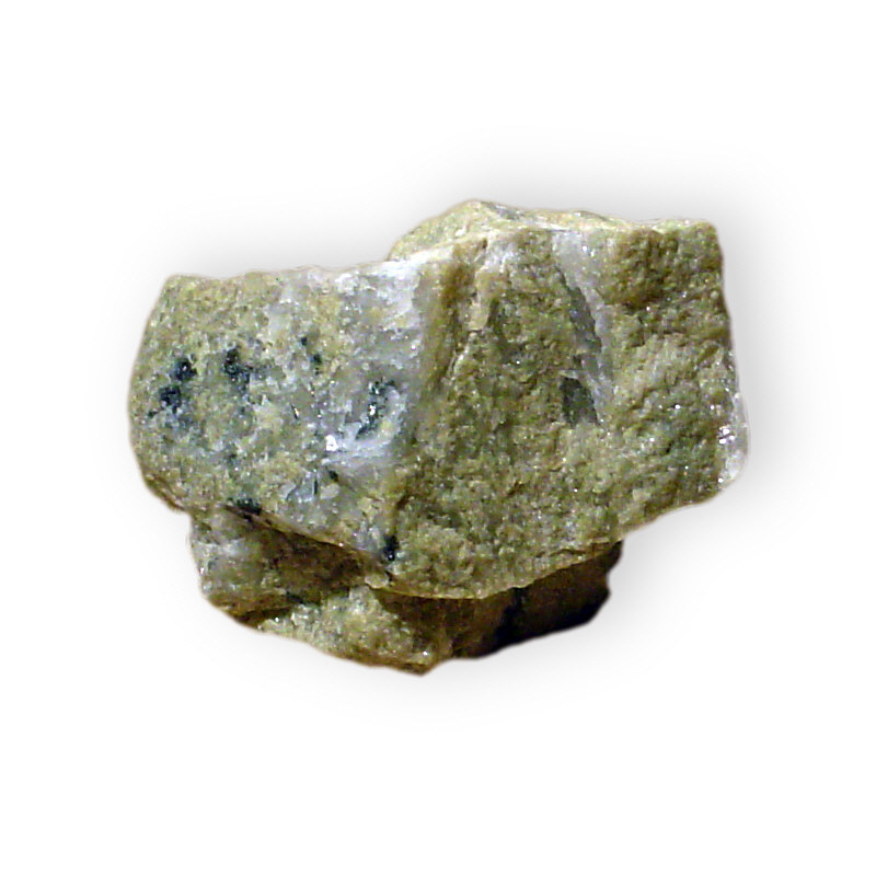 These mineral images are free to use how you wish.